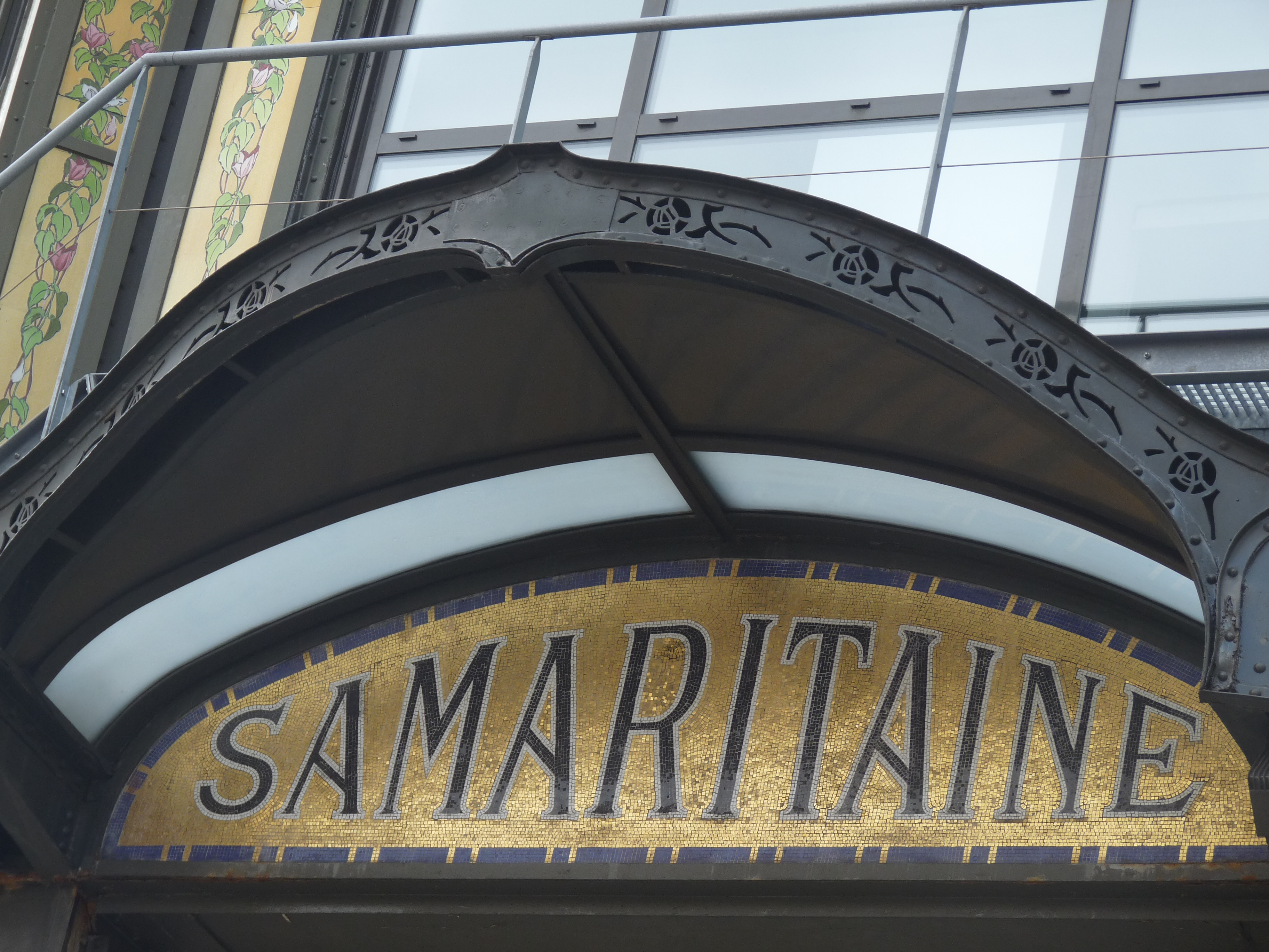 Old signage above the entrance to La Samaritaine in September 2010.